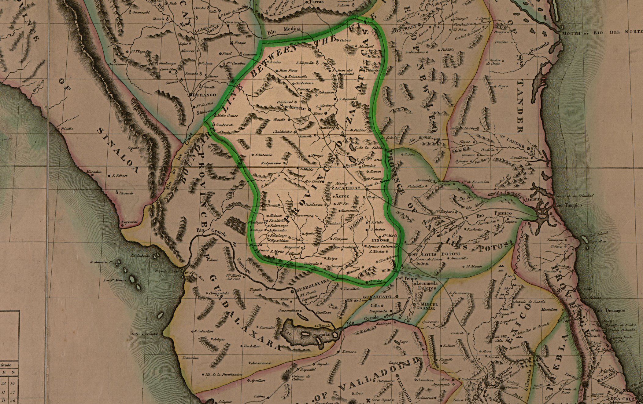 Map of Mexico, Lousiana and missouri territory, by John H Robinson, 1819